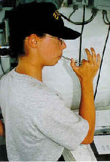 U.S. Coast Guard Boatswain's Mate 3rd Class Jessica Walsh practices her technique with the Boatswain's Pipe.